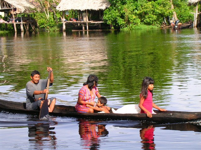 Waraos at the at Morichal largo River. Monagas State. Venezuela.